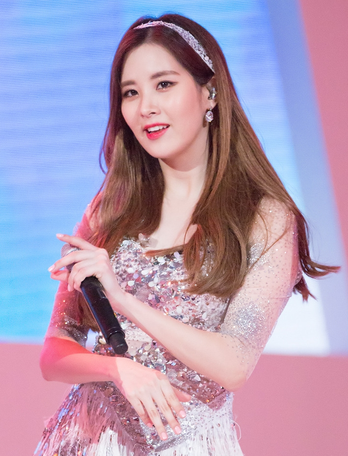 Seohyun night club